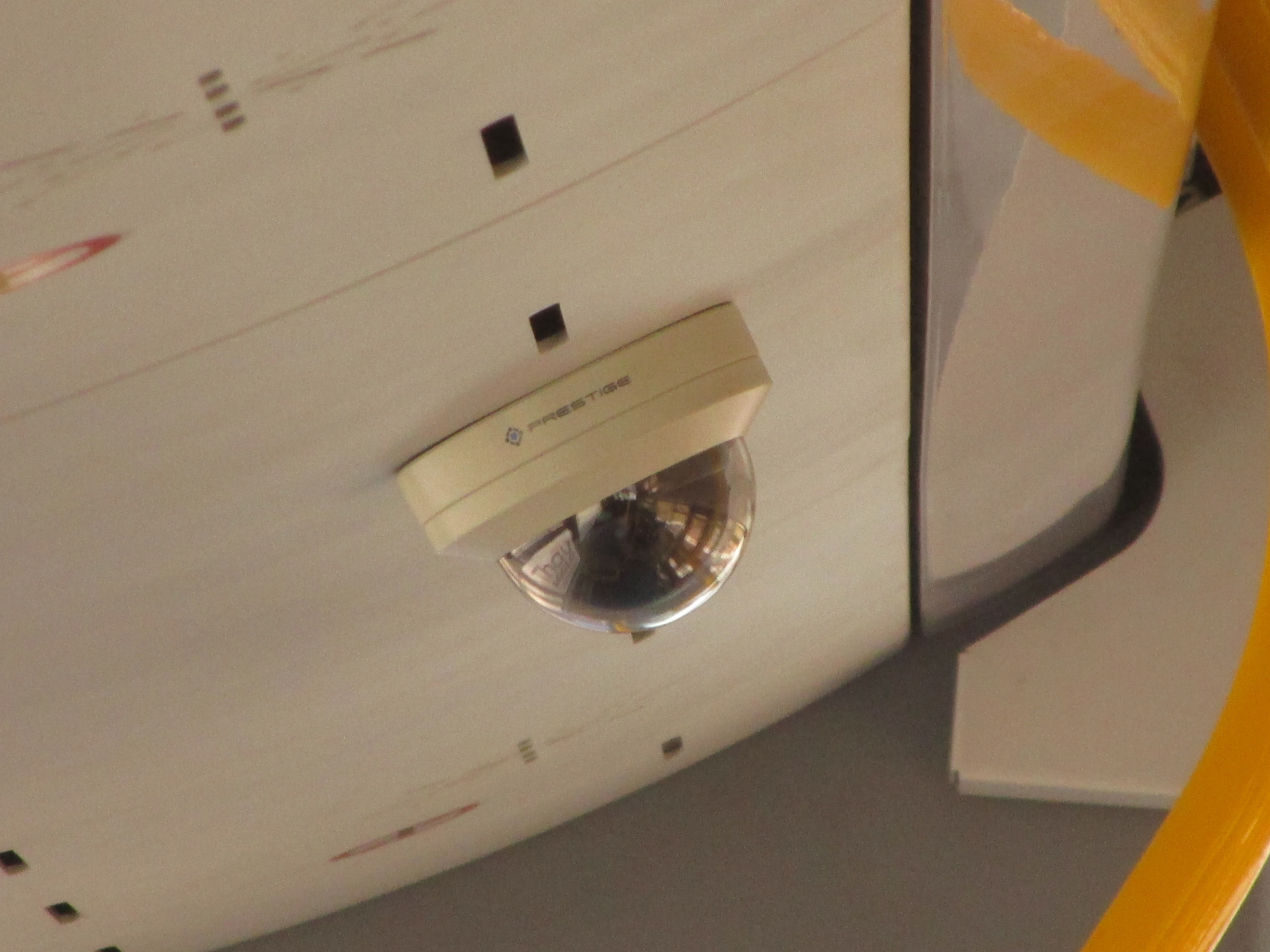 A surveillance camera in the MAN Lion’s City M n°22 of Thau Agglo Transport.